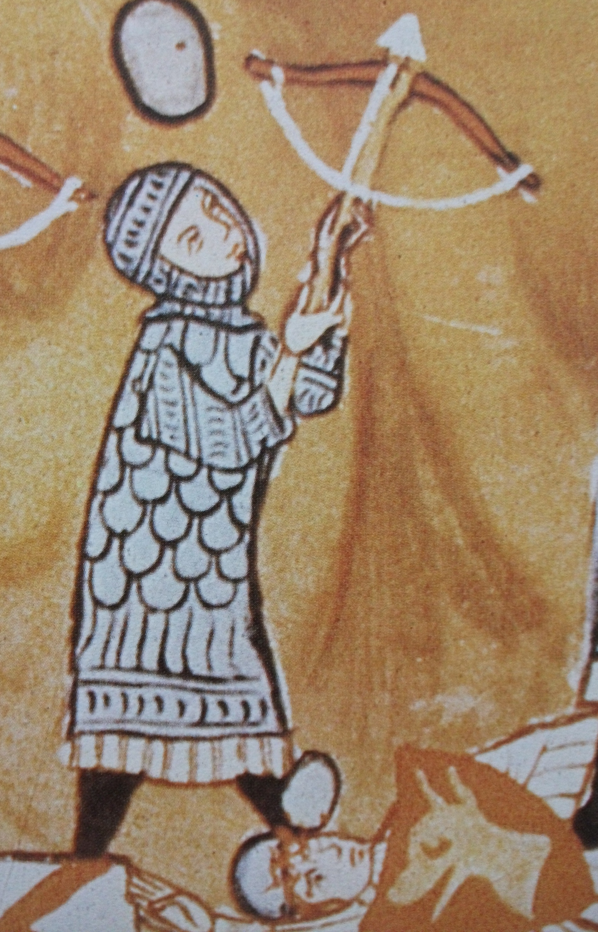 German footsoldier with crossbow and scale armour at the siege of the Wartburg in Thuringia. Picture of the Codex Manesse, fol. 229v, Der Düring (1305-1340). Picture from the University Library Heidelberg.